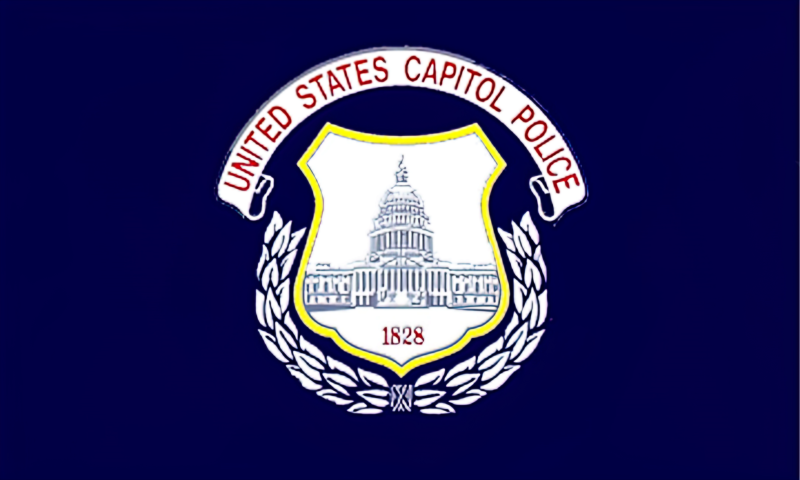 Flag of the United States Capitol Police